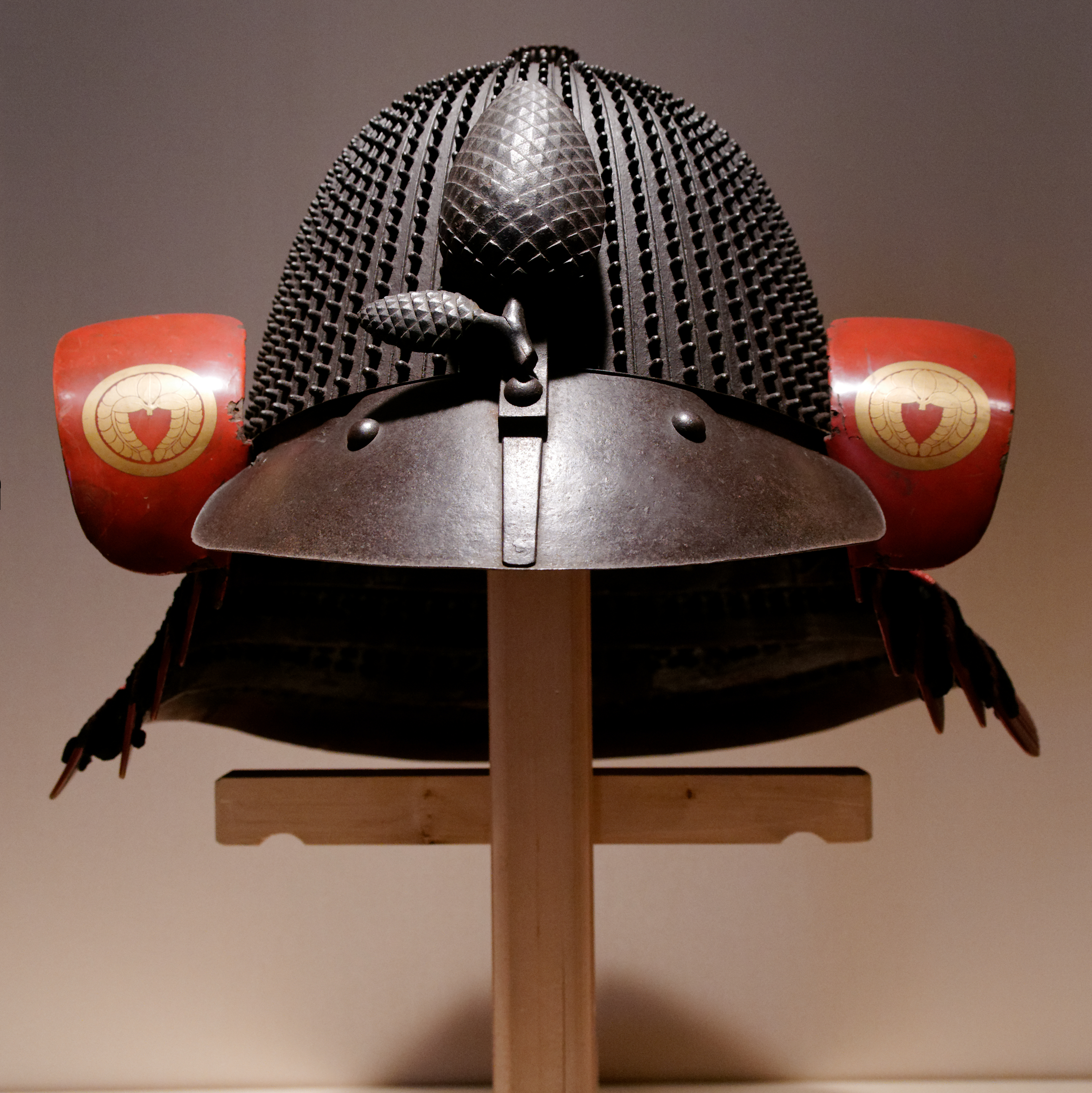 Hoshi Kabuto-type helmet inscribed by Saotemelesuke, Edo period.